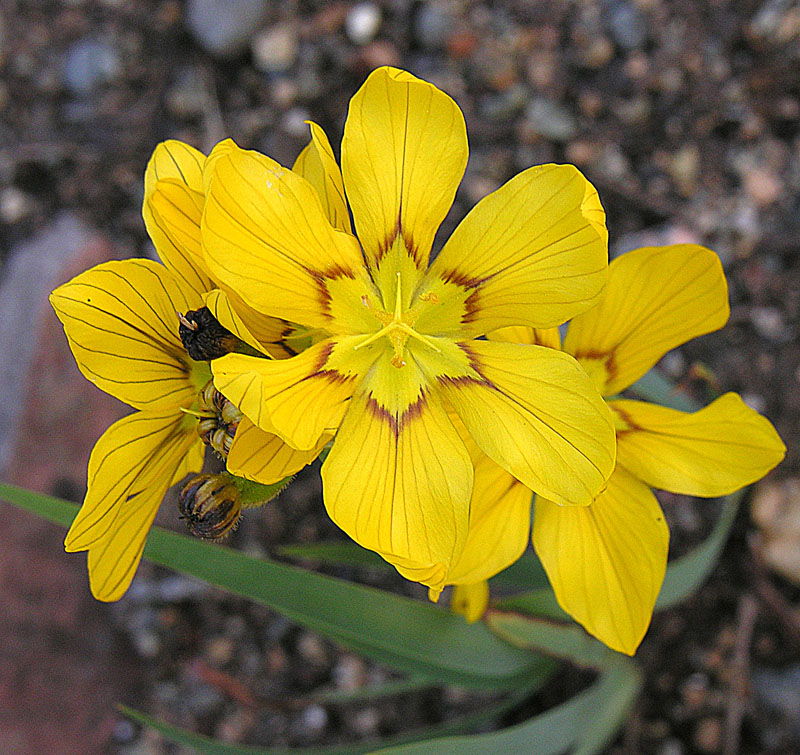 Native to the Andes of southern Argentina. Botanical Gardens, UBC, In context at